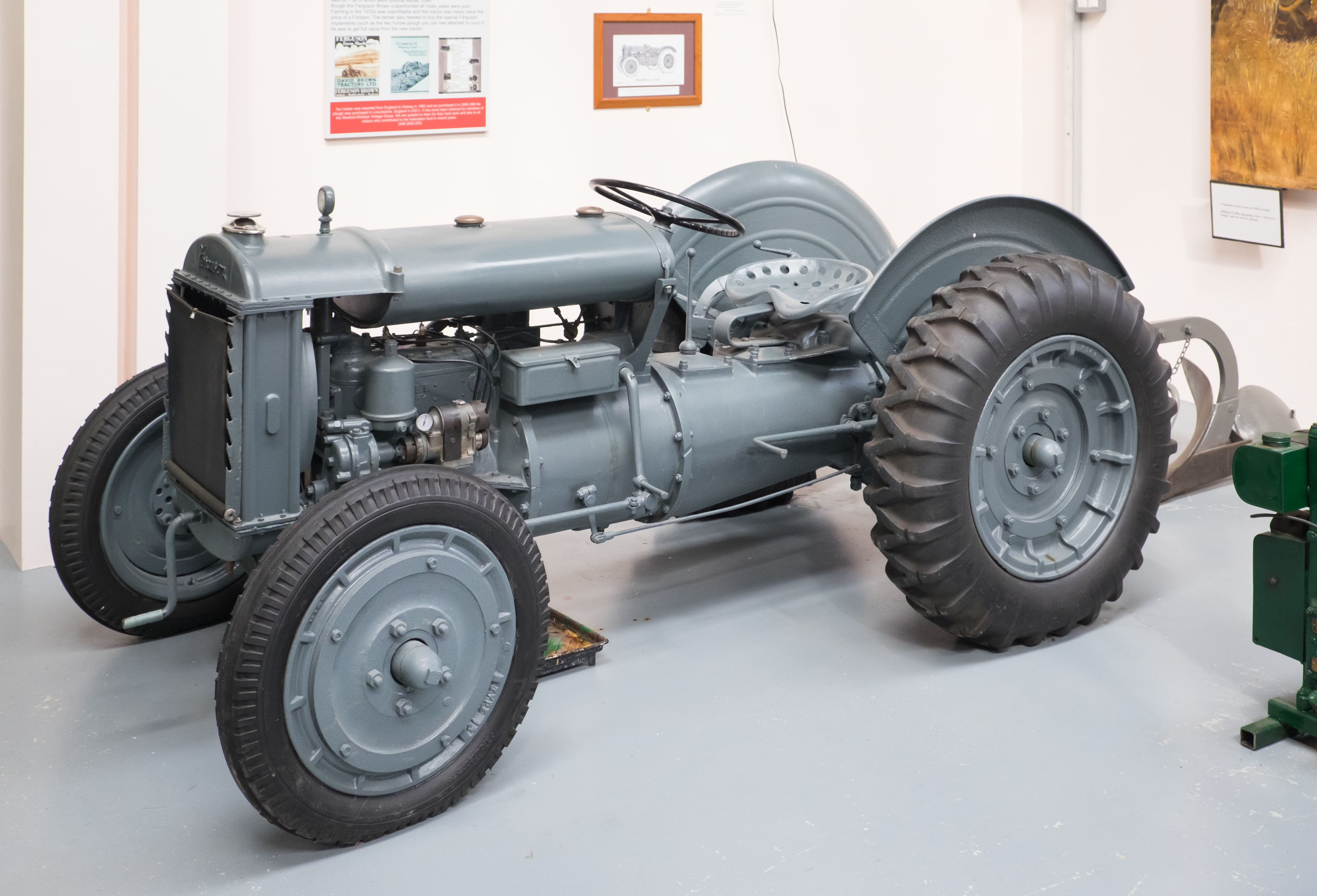 Ferguson-Brown Type A (produced 1936-39). This tractor was photographed in the Irish Agricultural Museum near Wexford.